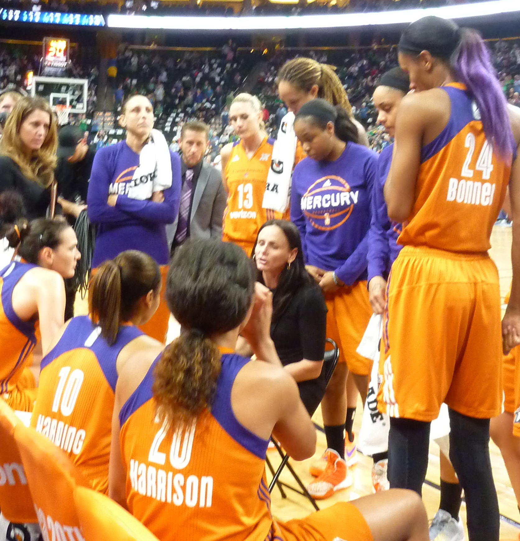 Phoenix Mercury, timeout, 2016 WNBA semifinals